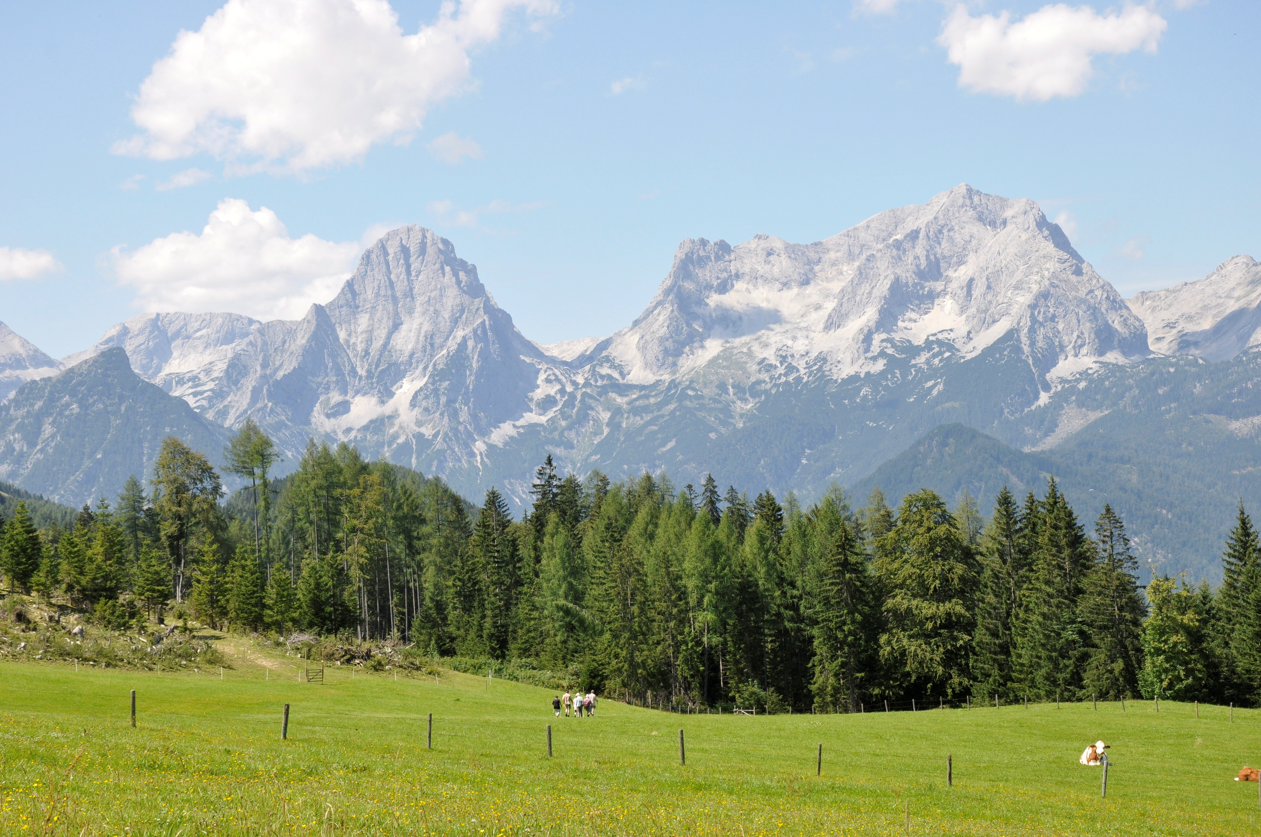 Großer Priel (2515 m), Brotfall (2380 ) and Spitzmauer (2442 m) from Steyrsbergerreith (ca. 1180 m).